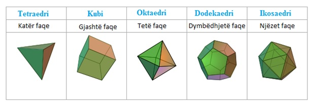 5 Trupat e Platonit